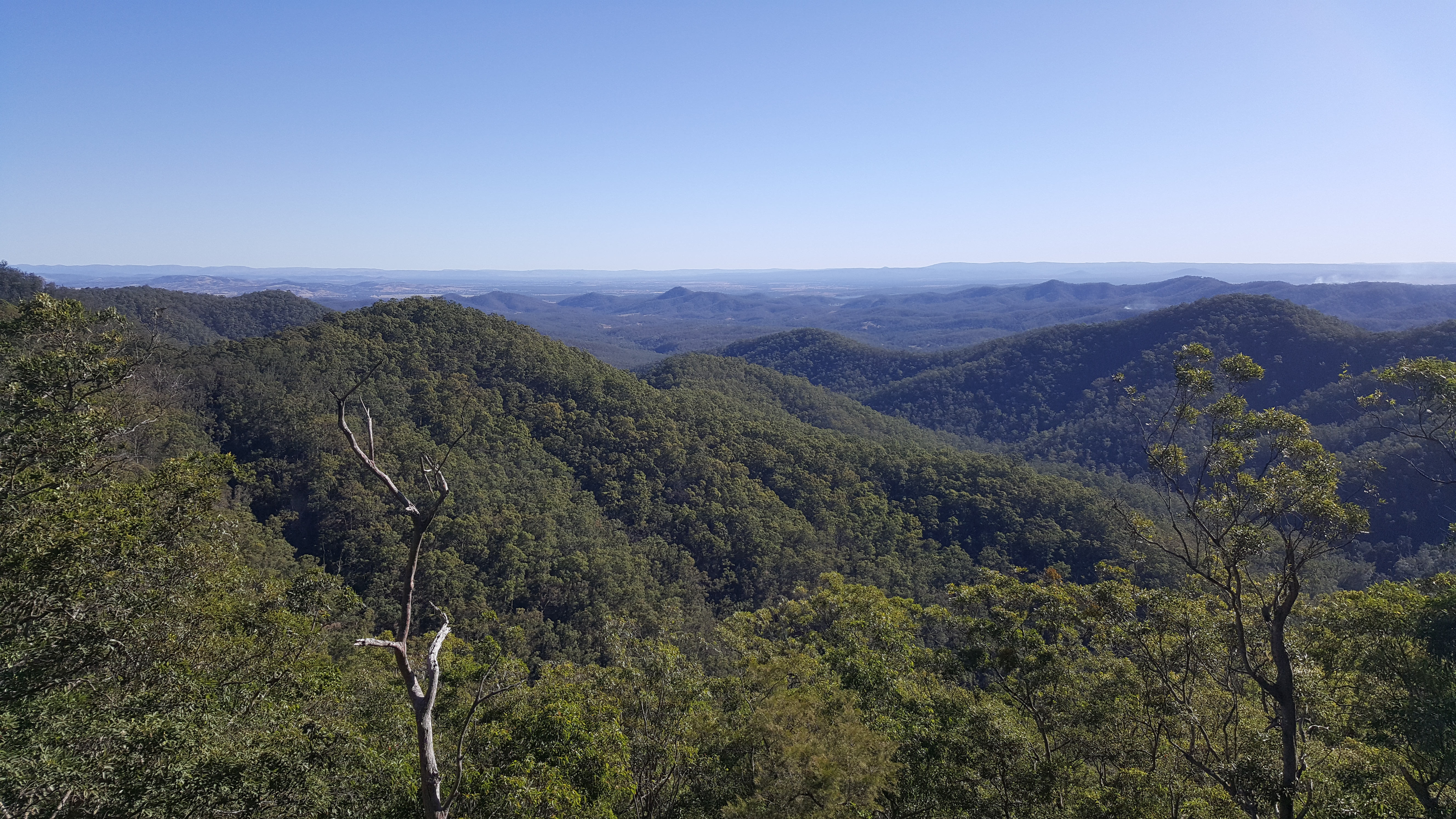 View from Westridge Outlook in the D'Aguilar National Park